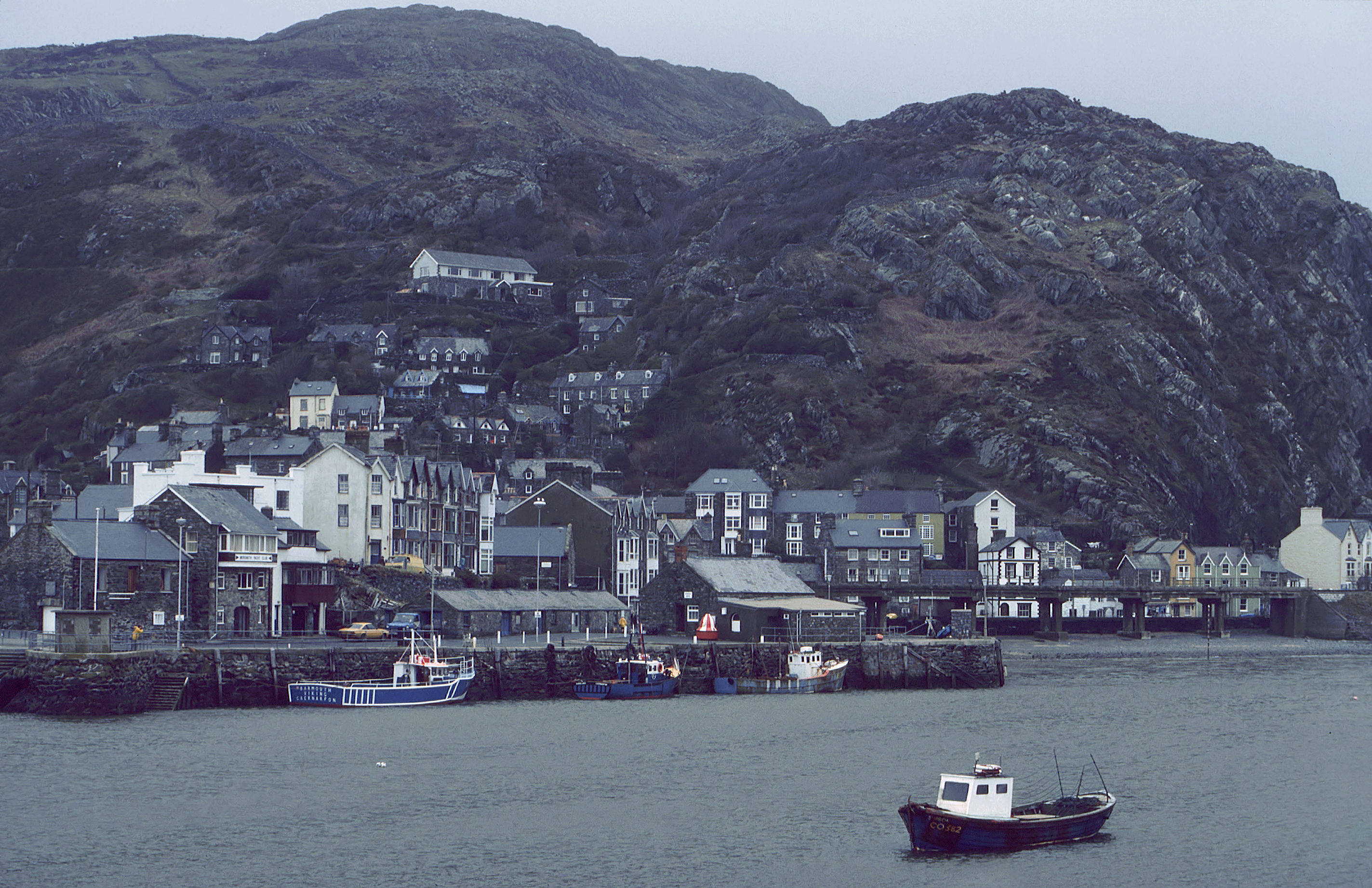 Quay and village of Barmouth in North Wales/UK, located on the Mawddach estuary